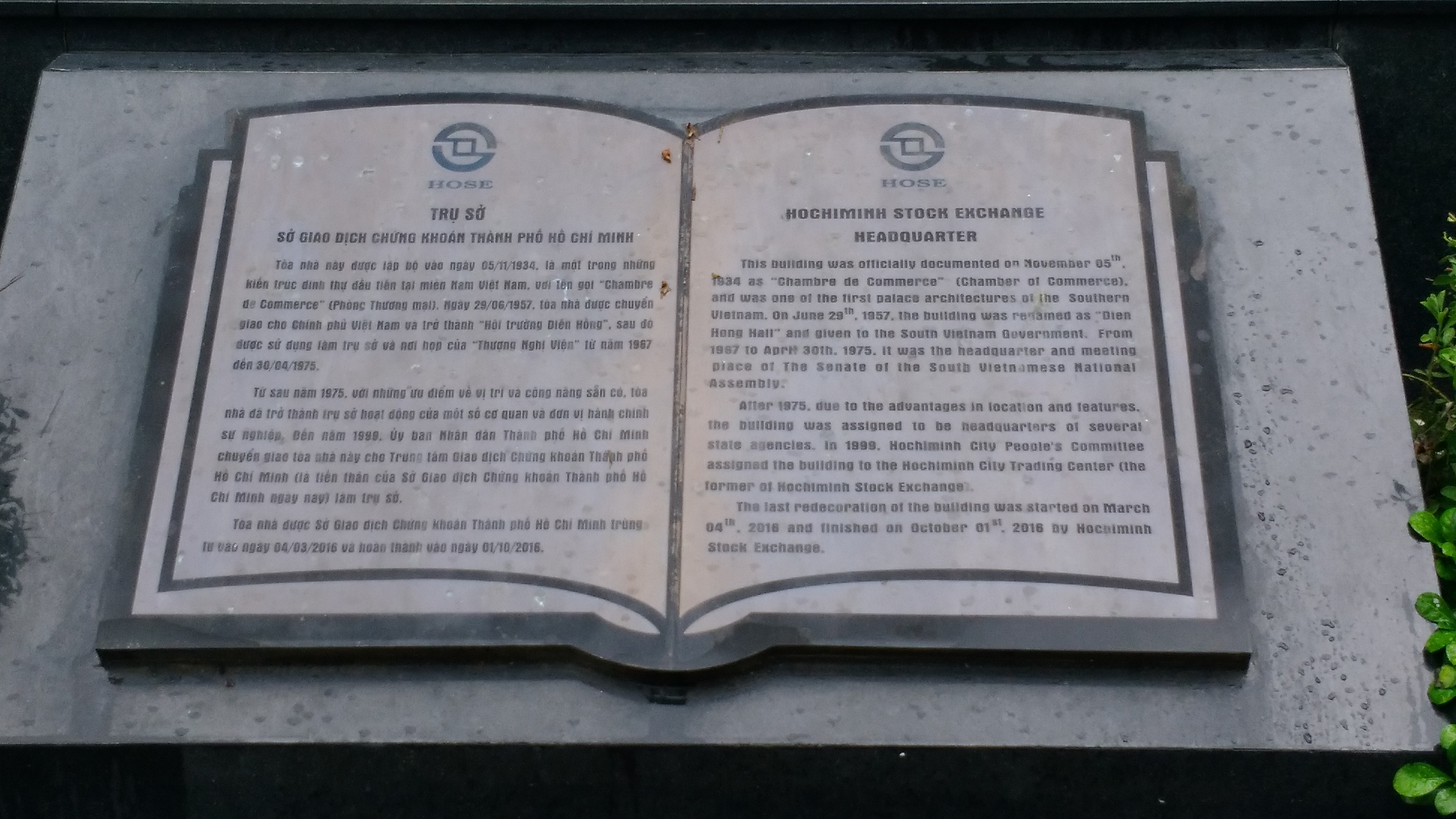 Statue in front of Ho Chi Minh City Stock Exchange